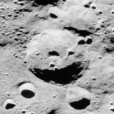 Oblique view of Pizzetti crater, on the moon, facing east. From Apollo 17 mapping camera during trans-Earth injection.